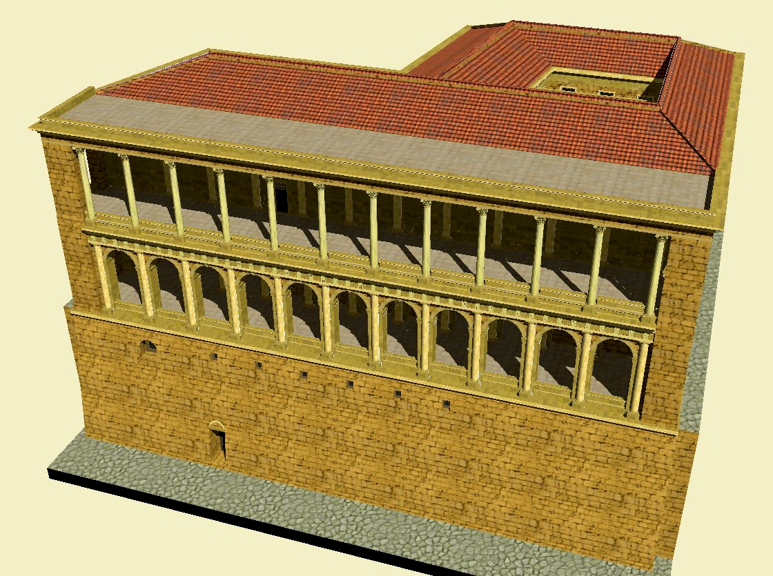 This is a derivative work of a 3D, Computer generated image of the Tabularium by the model maker, Lasha Tskhondia - L.VII.C.[1]. Variations to the original model include shadows, adjusted for good lighting as well as the file being adjusted for color and contrast.